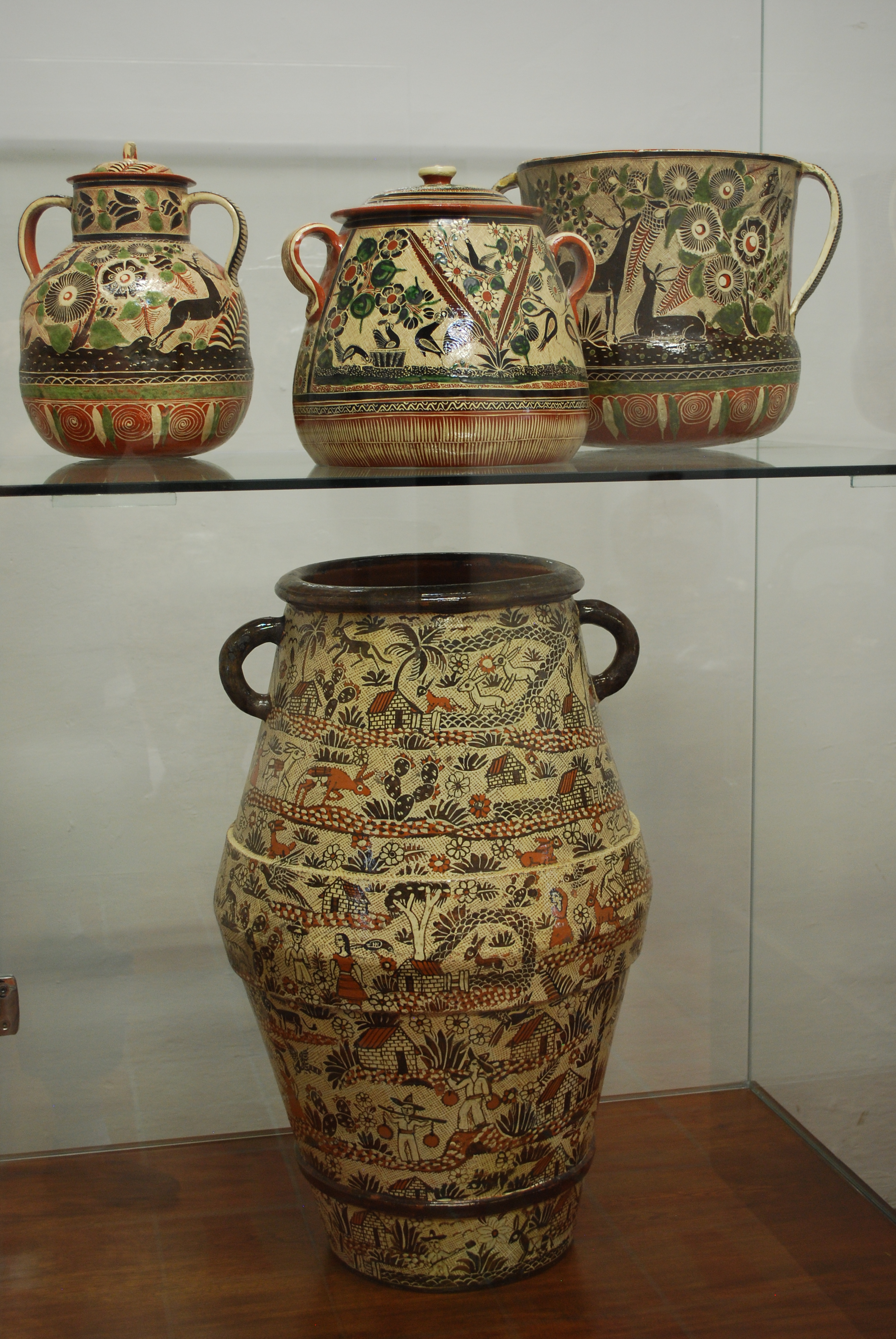 High fire pottery at the Museo Regional de Ceramica in Tlaquepaque, Jalisco, Mexico